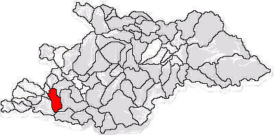 Map of Mireşu Mare commune in Maramureş